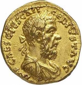 Pescennius Niger, 193-194, Aureus, Antioch.Aureus Obv: IMP CAES C PESC NIGER IVST AVG - Laureate, draped and cuirassed bust right. Unlisted RIC, Calico 2406.